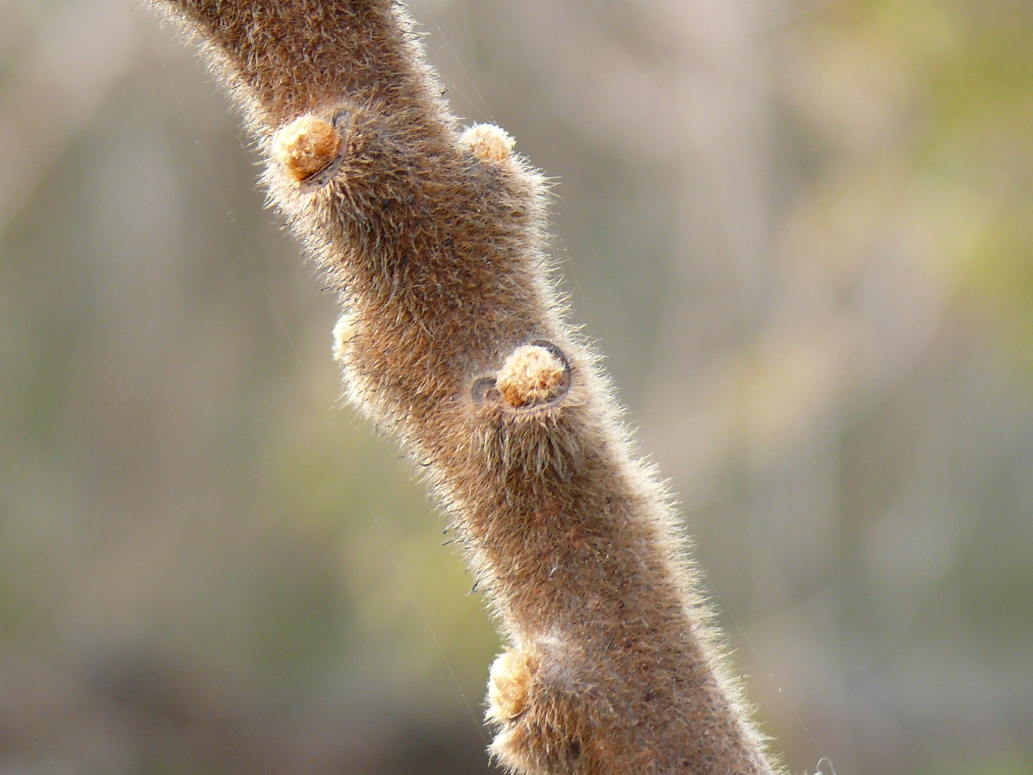 Rhus typhina